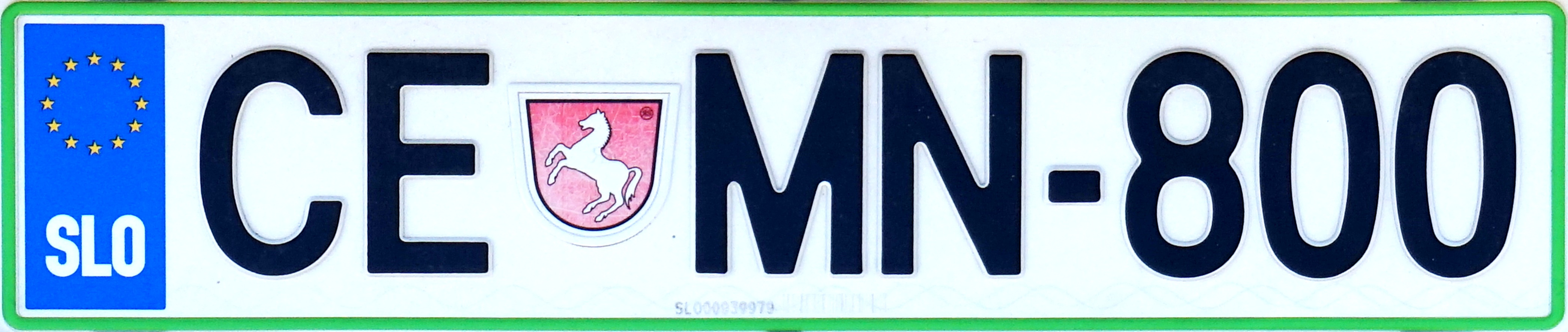 Slovenian license plate with the sticker of Slovenske Konjice administrative unit